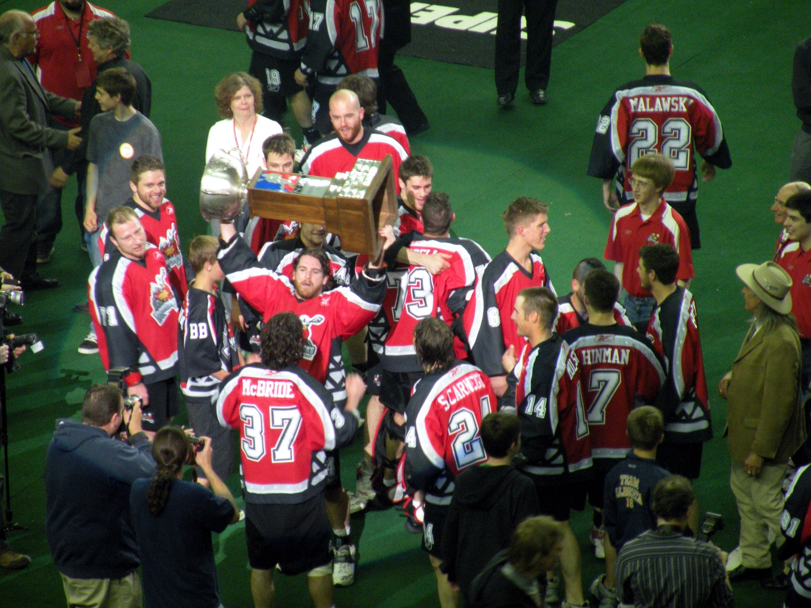 The Calgary Roughnecks celebrate winning the 2009 National Lacrosse League championship. Devan Wray is seen hoisting the Champions Cup over his head.